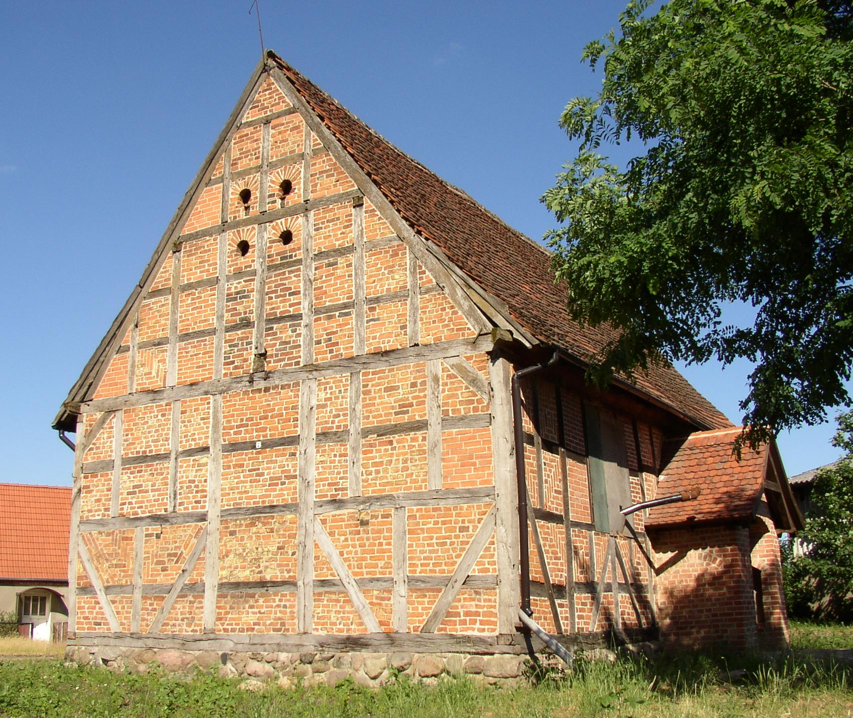 Chapel in Blumenthal-Horst (municipality Heiligengrabe) in Brandenburg, Germany